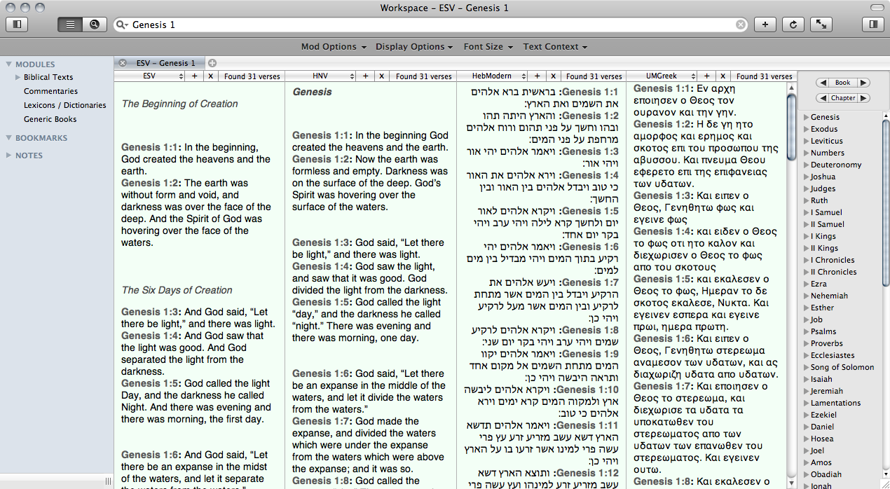 Screenshot of the Program "Eloquent" with four panes open